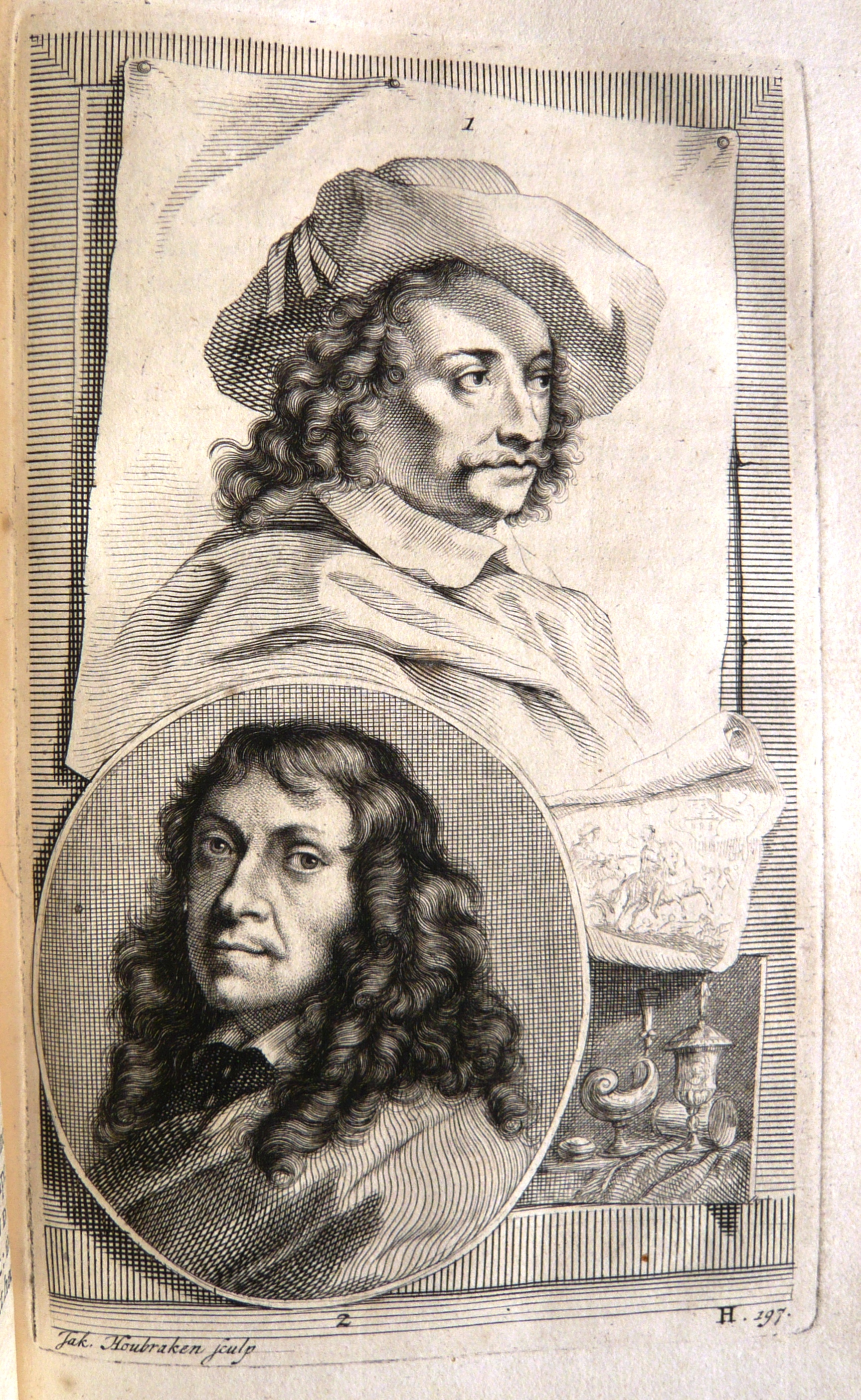 Schouburg Schouburg Plate H - Hendrick Verschuuring en Willem Kalf of Part 2 of Arnold Houbraken's Schouburg from 1719